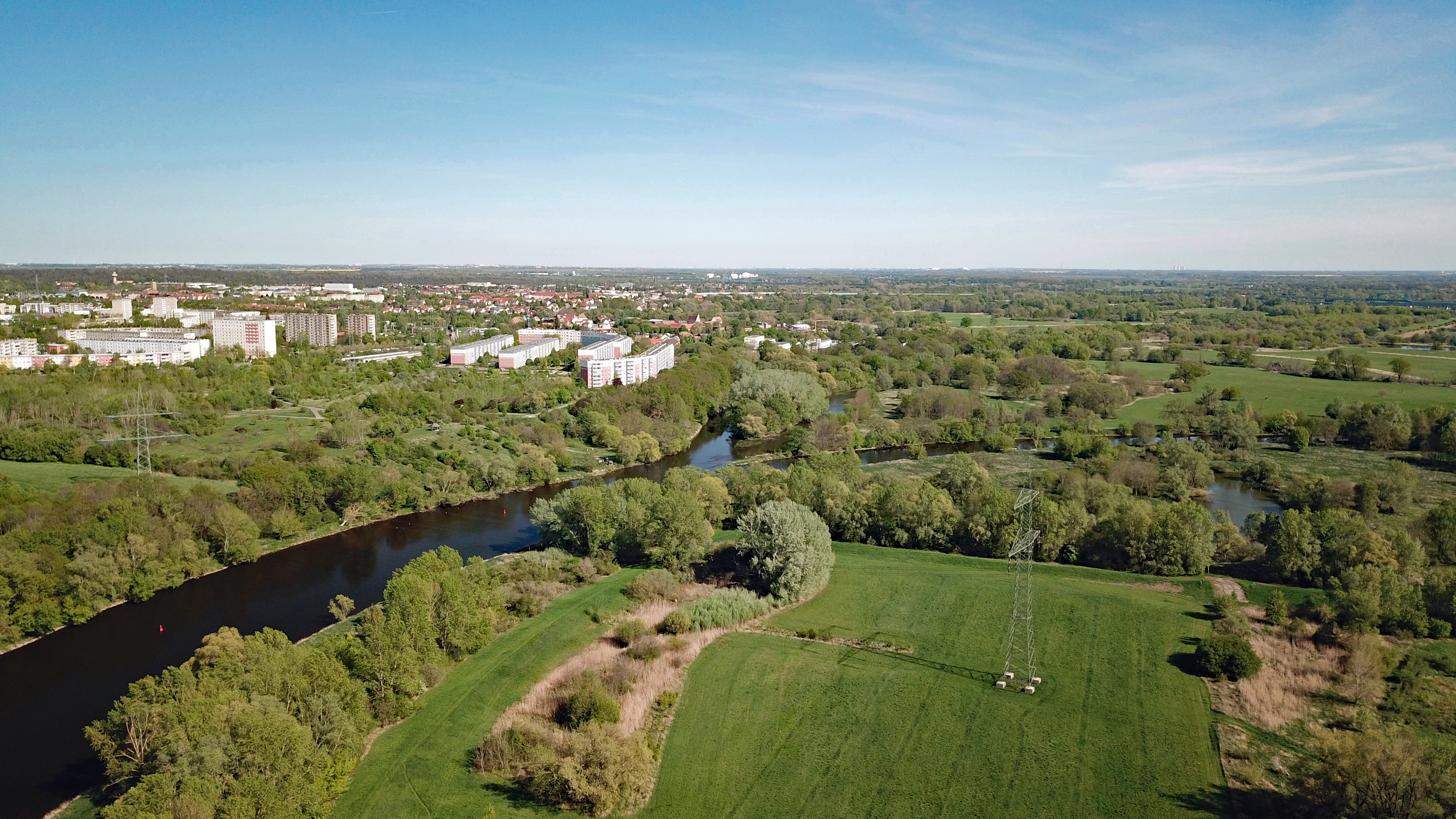 Mouth of river Weiße Elster (to river Saale), Halle (Saale), Saxony-Anhalt, Germany